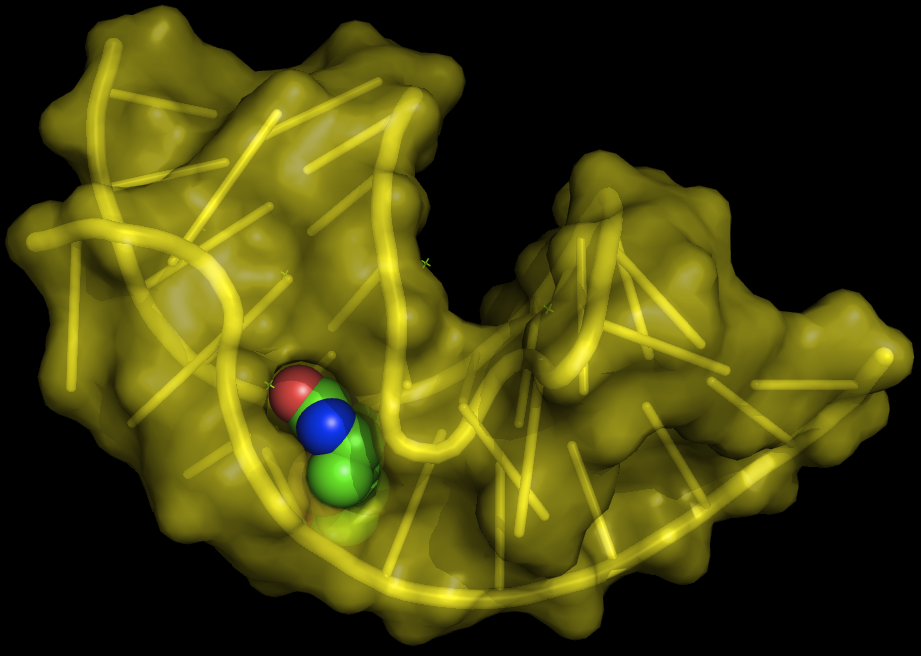 Structure of the biotin RNA aptamer (yellow) complexed with biotin - created with pymol using PBD entry 1F27